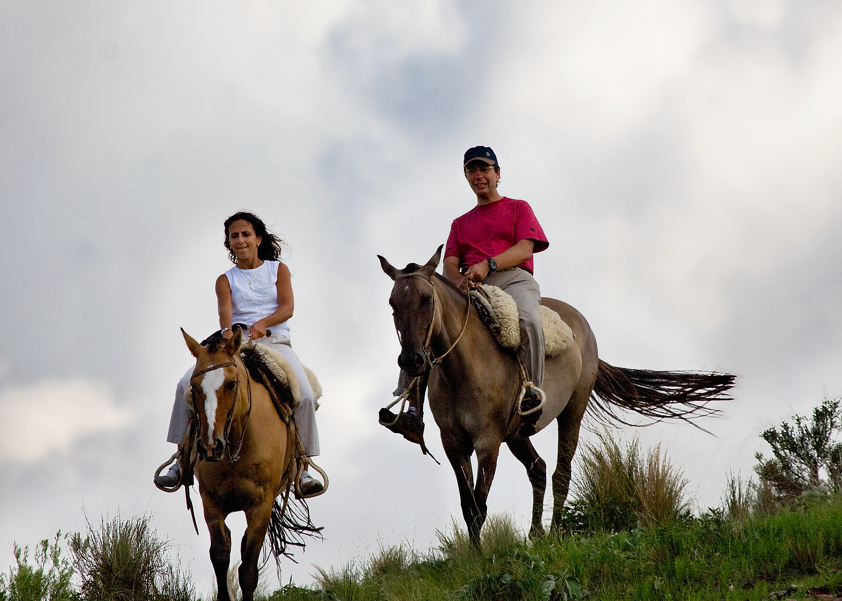 This couple were experienced horses and where allowed up on the more difficult trails.